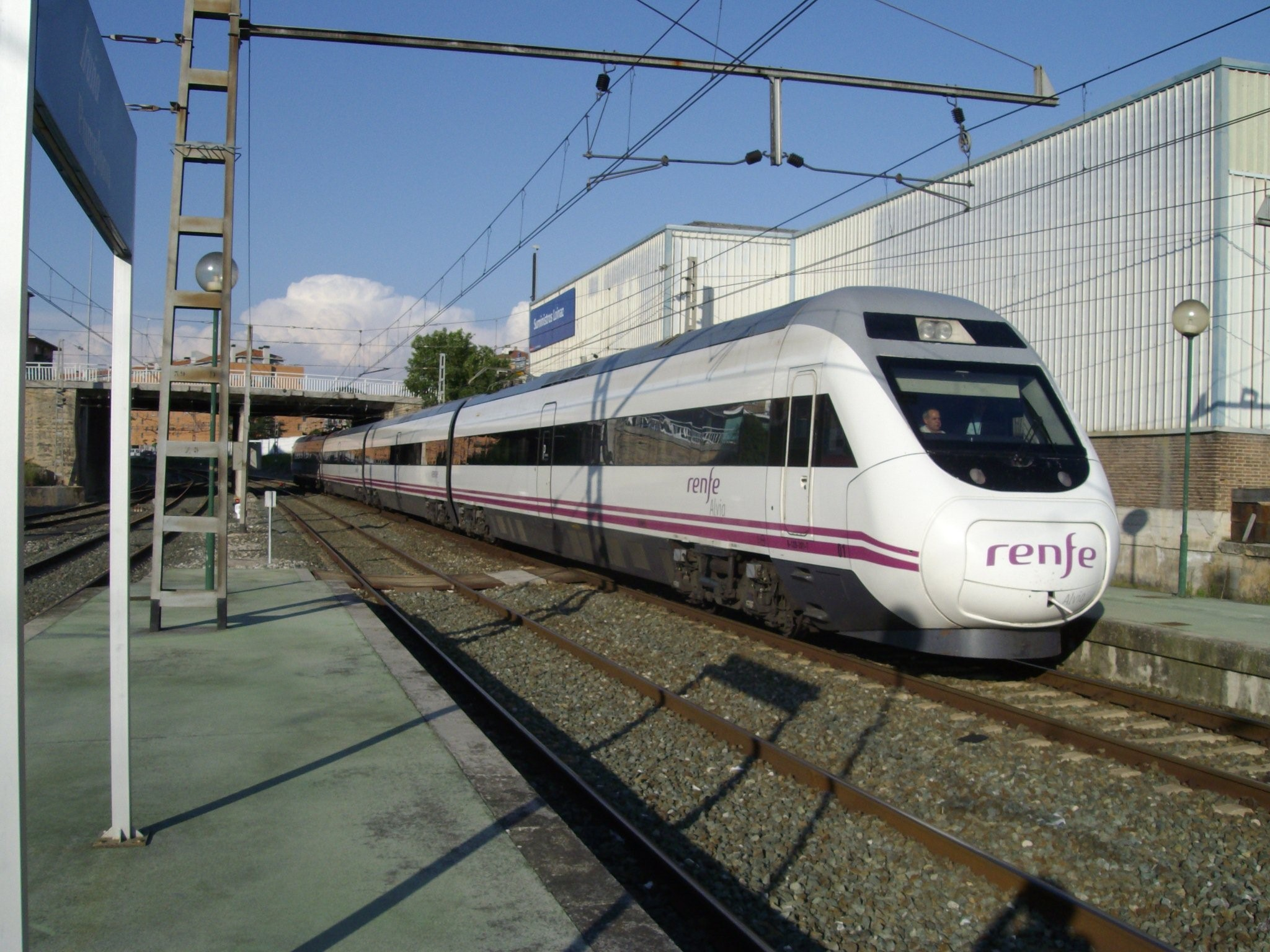 Alvia (train type 120) from Irún arriving in Pamplona/Iruña.